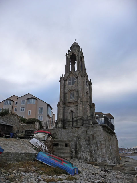 Clock tower and pillbox The Wellington clock tower was originally installed at the end of London Bridge in but was removed only years later as it was an obstruction to traffic. The tower was brought to Swanage by George Burt. Below the tower, which stands on private land, is a small pillbox from WWII, one of several wartime structures around Peveril Point.